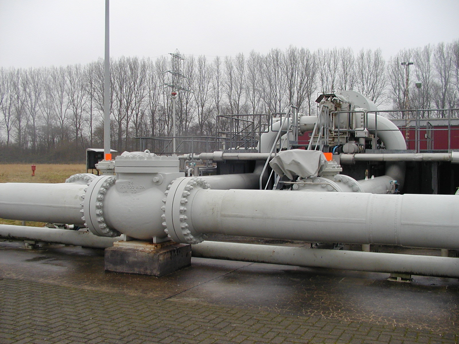 One whole branch (of four) of the pump station at the start of a 28" crude oil pipeline, in the foreground a check valve to surpass this branch (active in the moment), behind that two valves to control the actual pump access (closed)